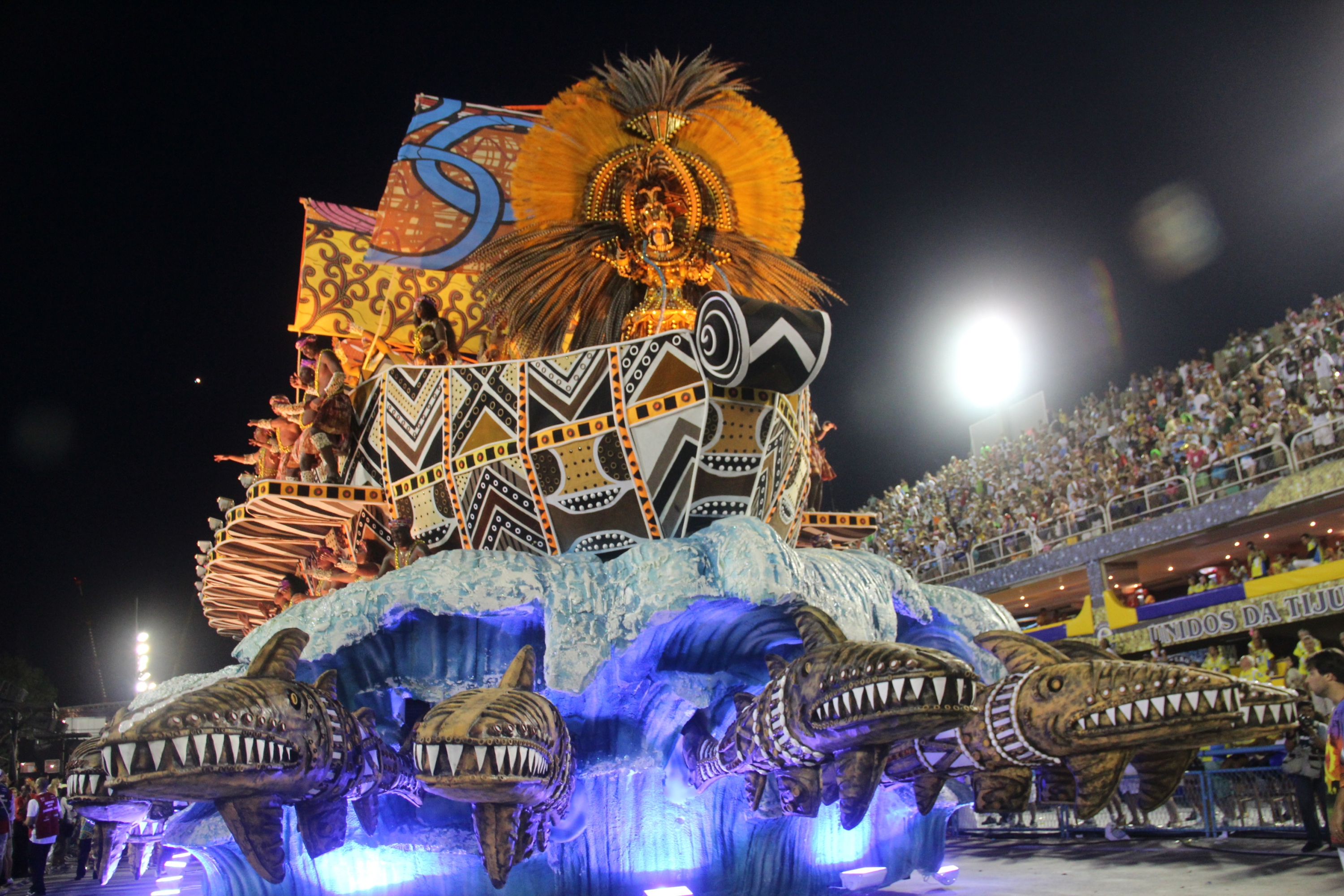 Parade of the samba school Unidos de Vila Isabel, in the parade of samba schools in Rio de Janeiro (Brazil, 2012).